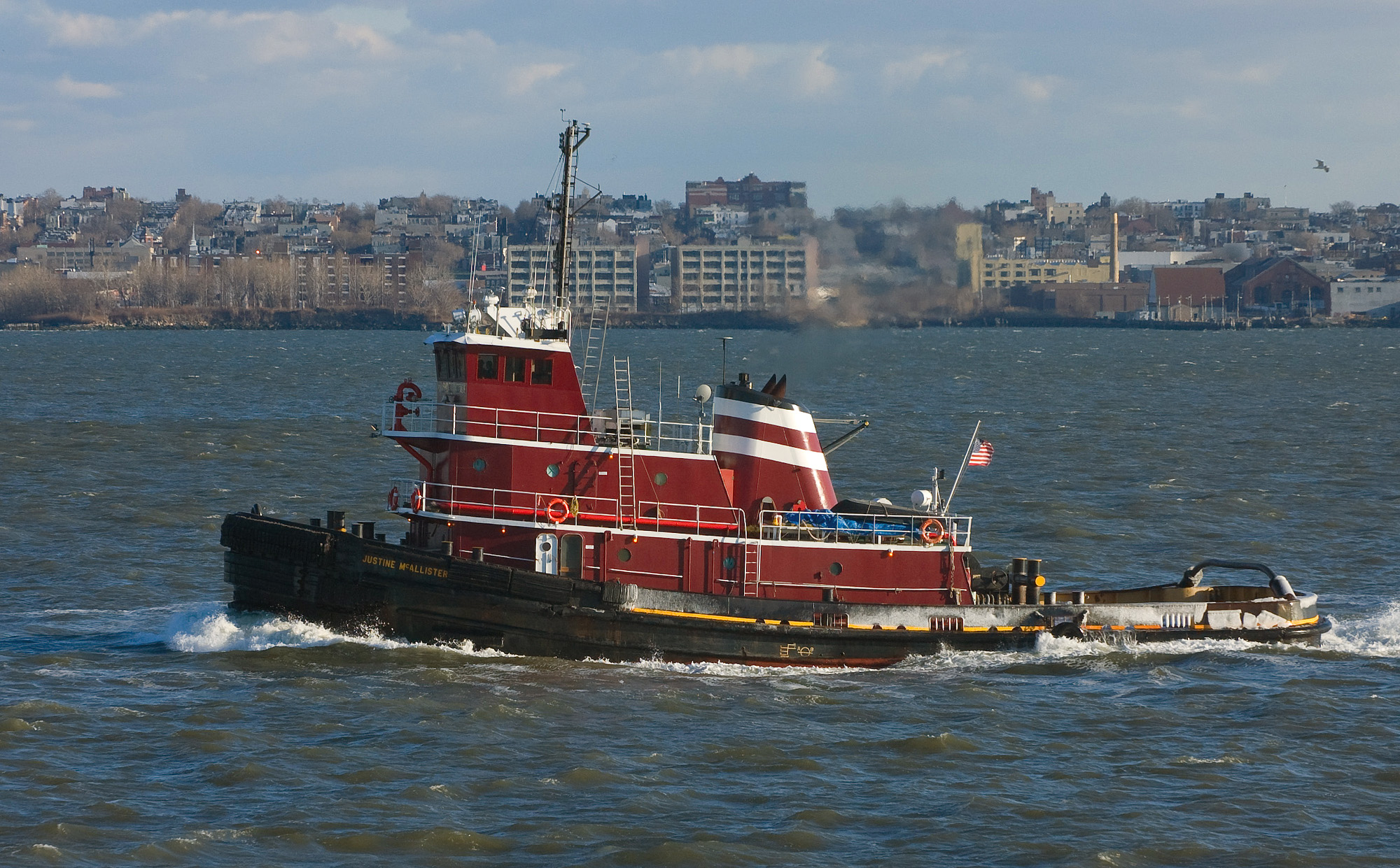 Justine McAllister (IMO 8107878), a tug boat in New York Harbor. Information about Justine McAllister may be found at IMO 8107878.A ship can change name and flag state through time, but the IMO number remains the same through the hull's entire lifetime. As a result, it can be useful to identify a ship by using the IMO number.